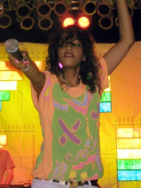 MIA on stage at the Bonnaroo Music and Arts Festival, June 13th, 2008